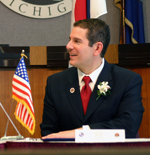 From 11-6-2006, taken by me.